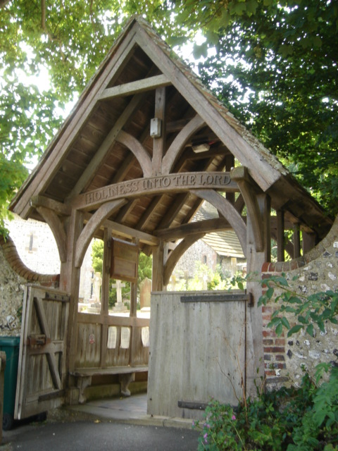 Lychgate at the entrance to the churchyard at St Wulfran's Church, Ovingdean, City of Brighton and Hove, England.